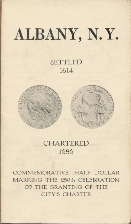 This is the front cover of a coin holder given with purchasers of between 1 and 5 Albany half dollars in 1936.